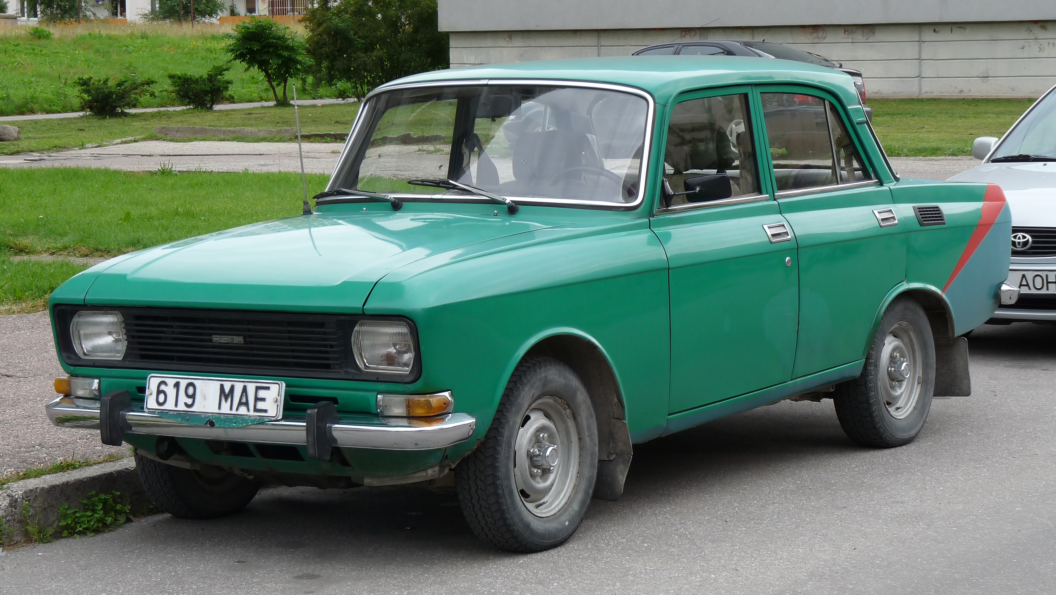 Moskvich